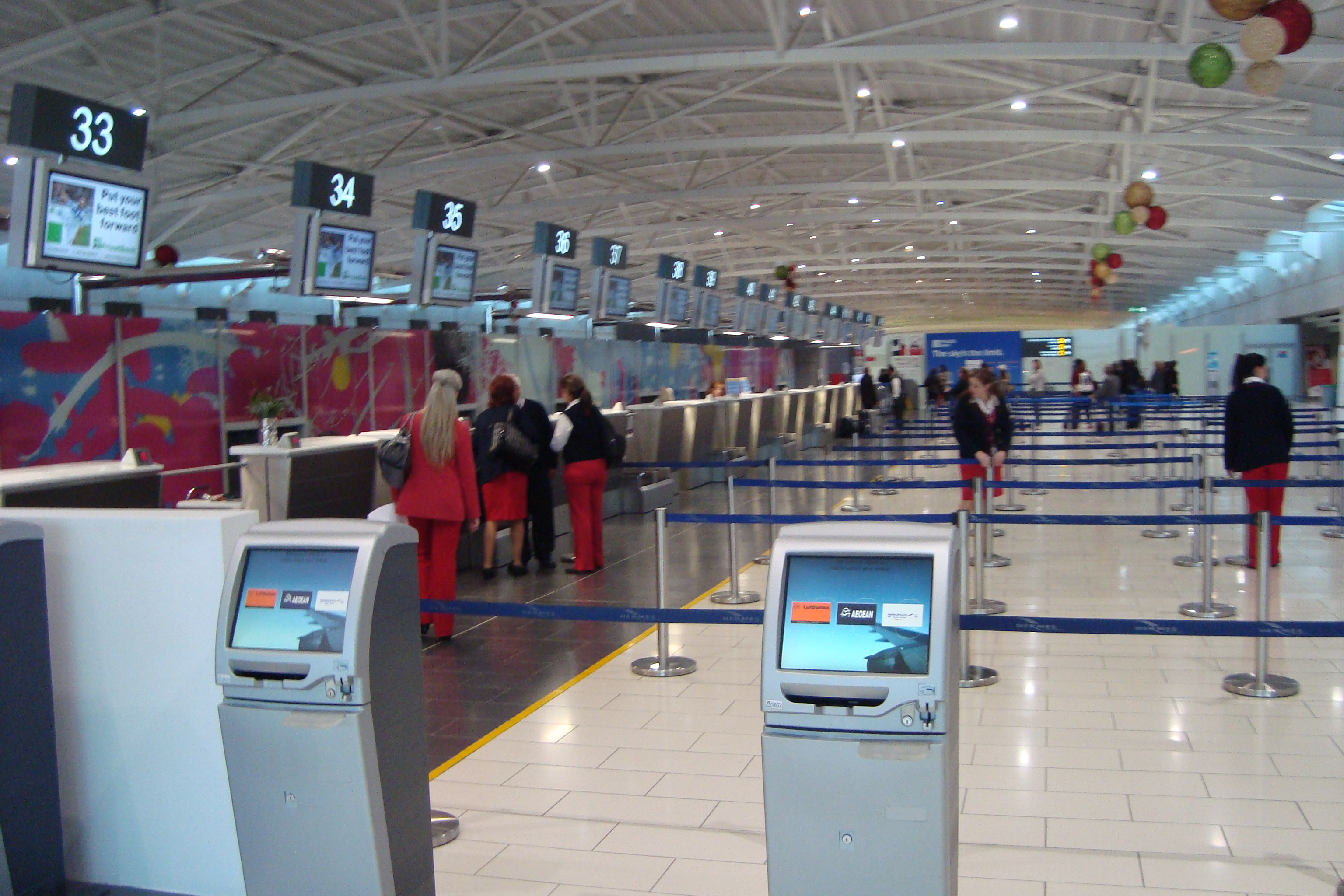 Larnaca International Airport Republic of Cyprus